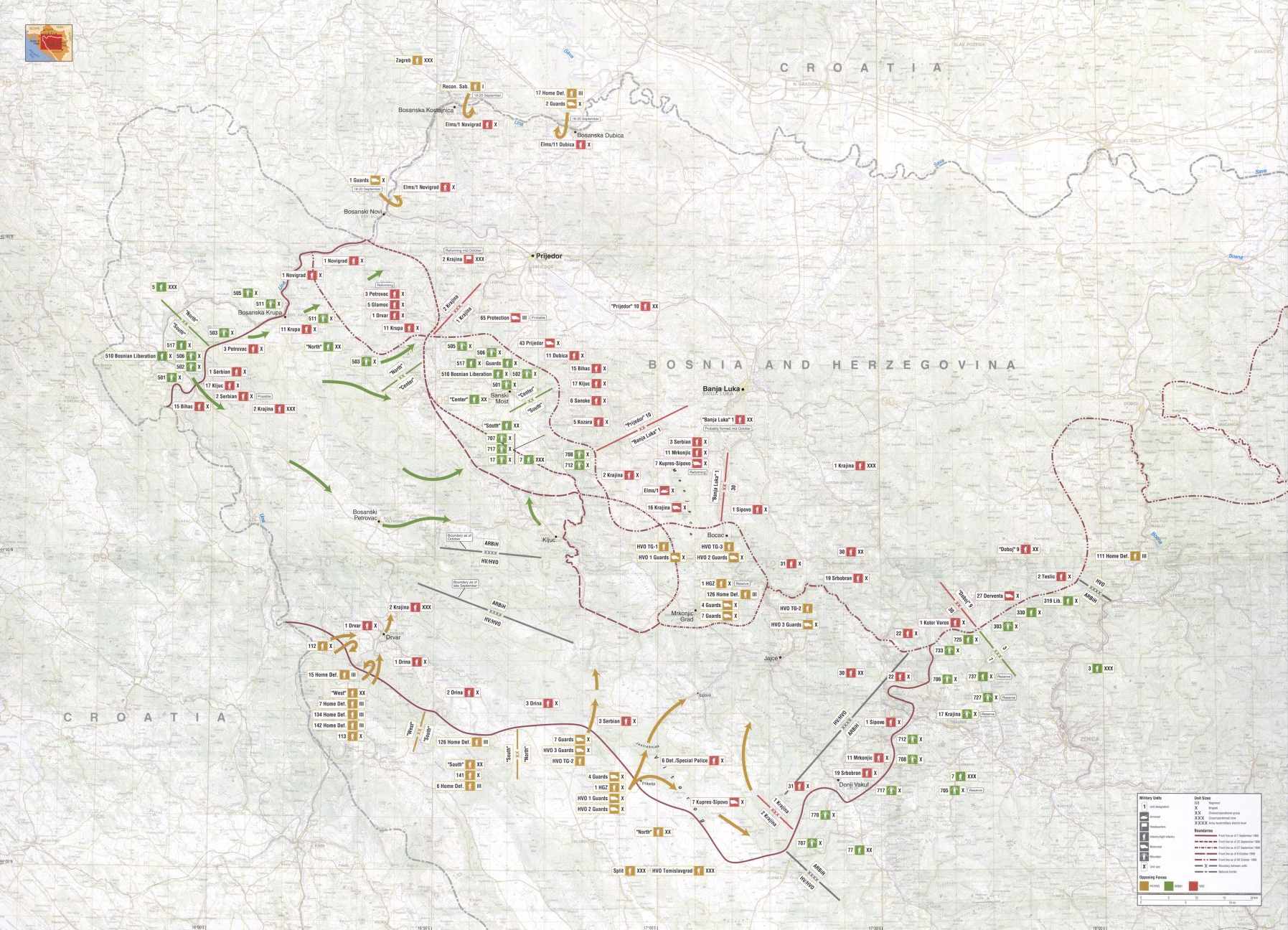 Map of the Western Bosnia operations in September-October 1995. Balkan Battlegrounds Map 51